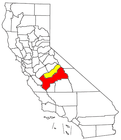 Locator map of the Fresno-Madera Combined Statistical Area in the central part of the U.S. state of California. The two components of the CSA are colored separately: Fresno Metropolitan Statistical Area: red Madera Metropolitan Statistical Area: yellow